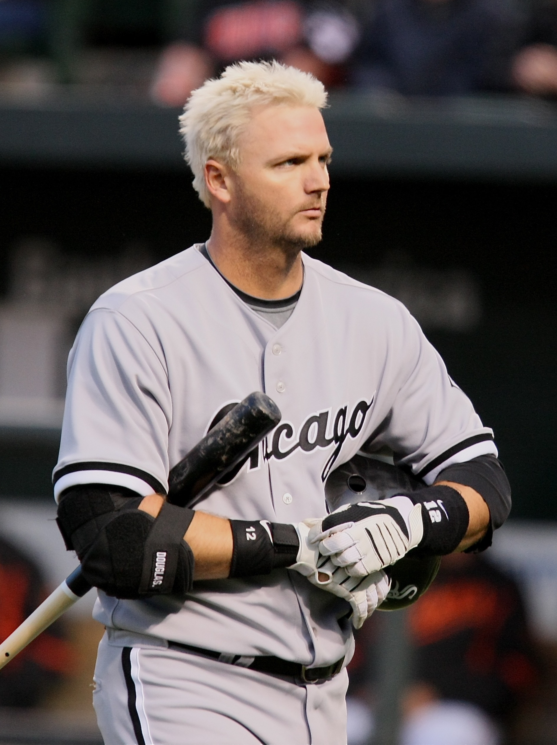 A.J. Pierzynski